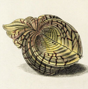 Shell pictures by Anna or Susanna Lister in the Bodlian Library (someone claims copyright to these ???)